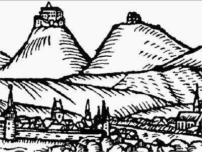 1593 graphic Uherske Hradiste